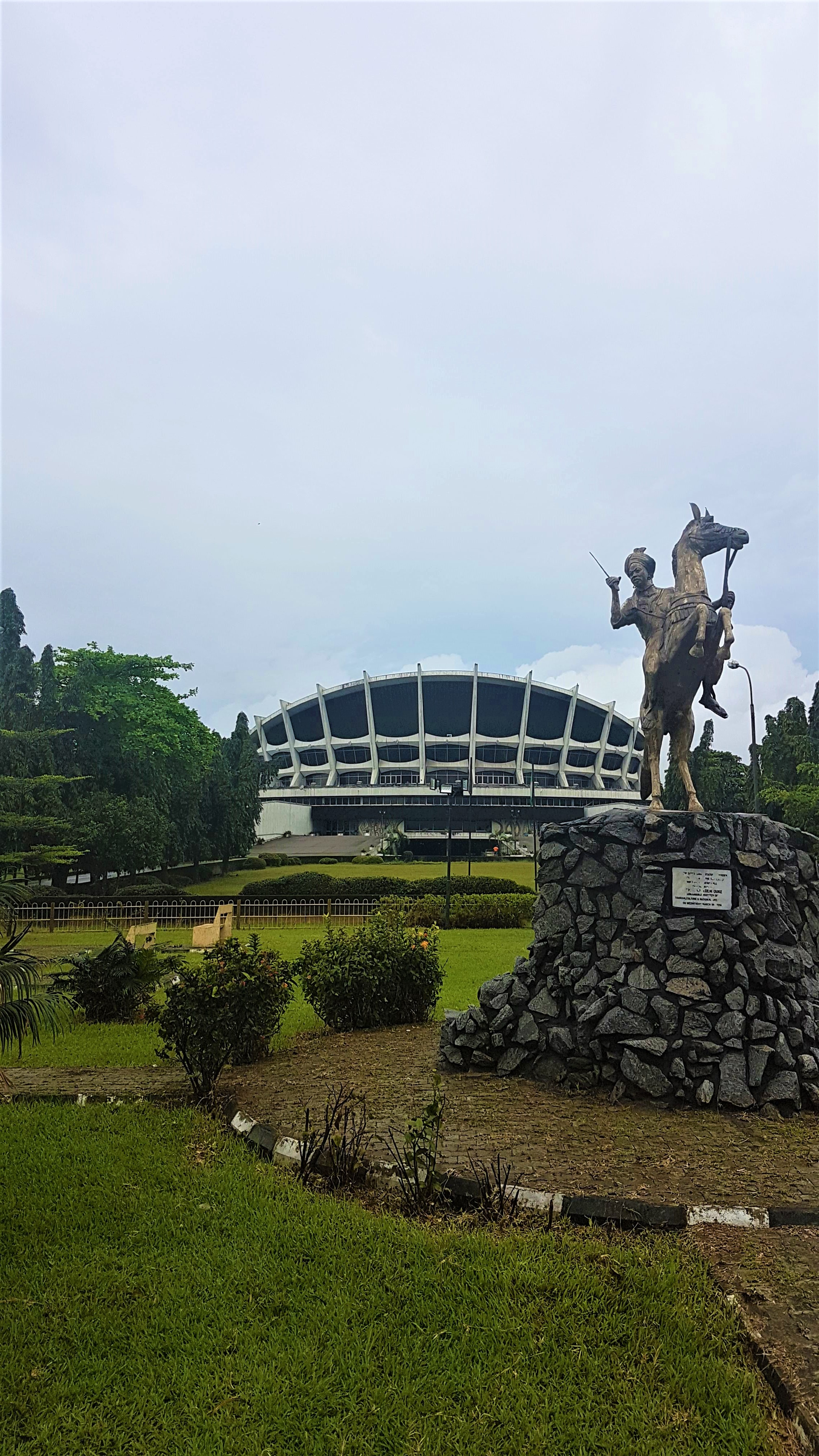 Queen Amina Statue in front of the National Arts Theatre